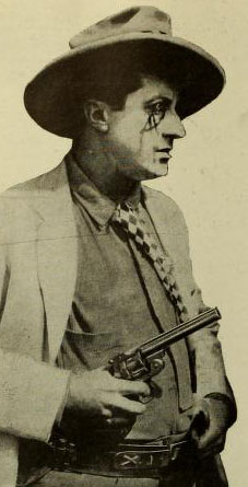 True Boardman in The Further Adventures of Stingaree. Moving Picture World